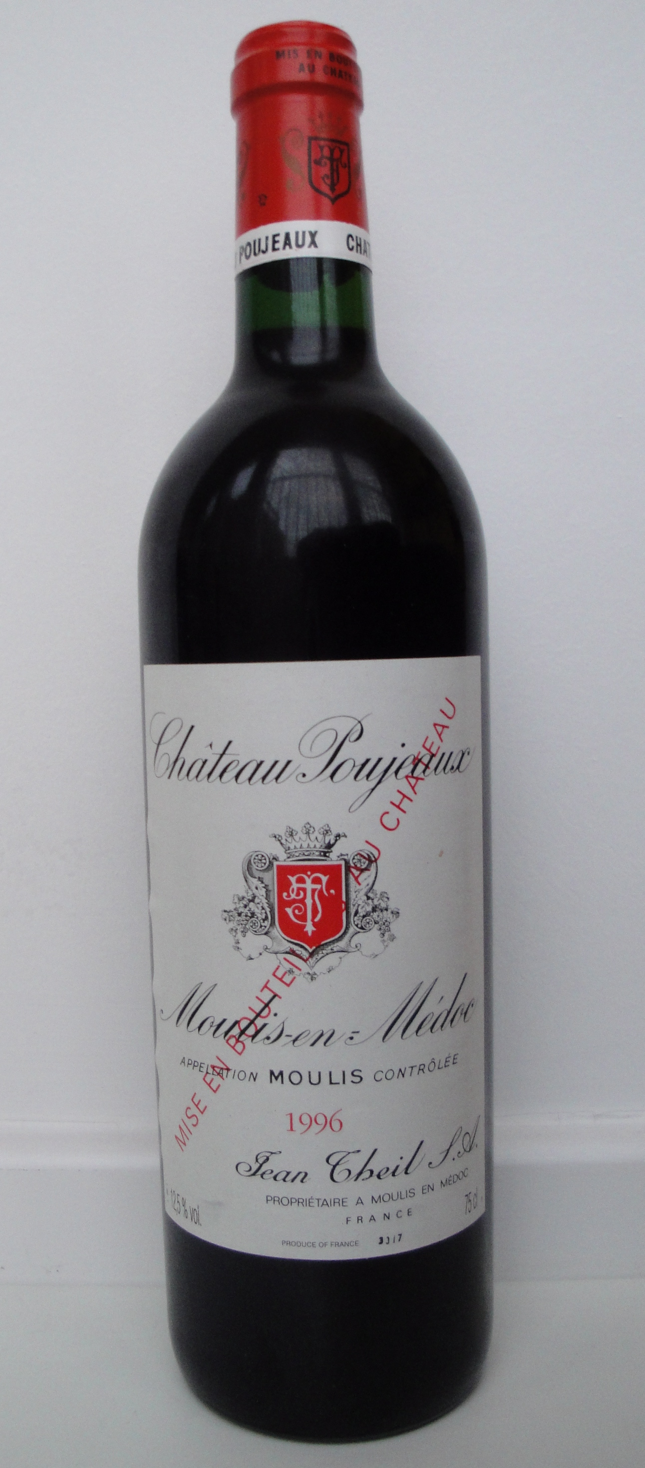 1996 Château Poujeaux, a wine from Moulis-en-Médoc in Bordeaux, classified as Cru Bourgeois Exceptionnel.